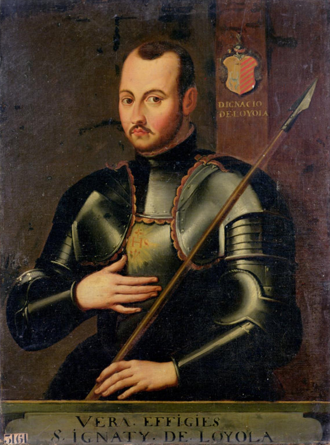 St. Ignatius of Loyola, depicted in armour with a Christogram on his breastplate